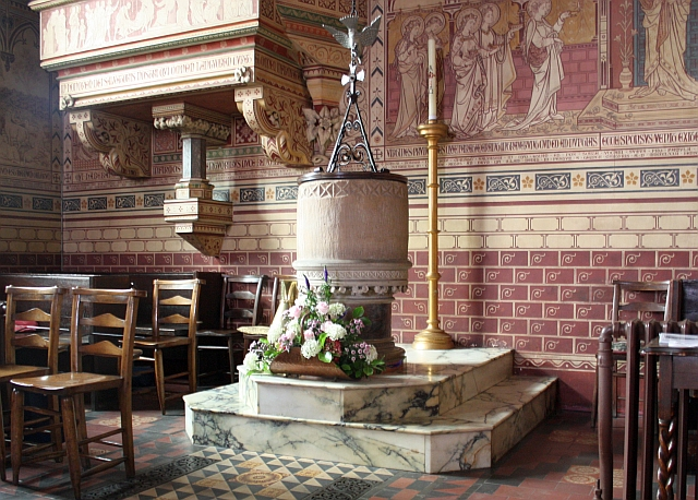 Font, St Leonard's Church, Newland. When the new church was built the font from the ancient timber framed chapel was installed here. The font may have originated at the ancient St Thomas' church in Great Malvern. After the reformation the villagers bought the priory church as their parish church allowing the old font to go to Newland which had been a dependency of Great Malvern Priory. Could it be that William Langland, the poet who wrote the vision of Piers Plowman over 6 centuries ago could have been christened in this very font?